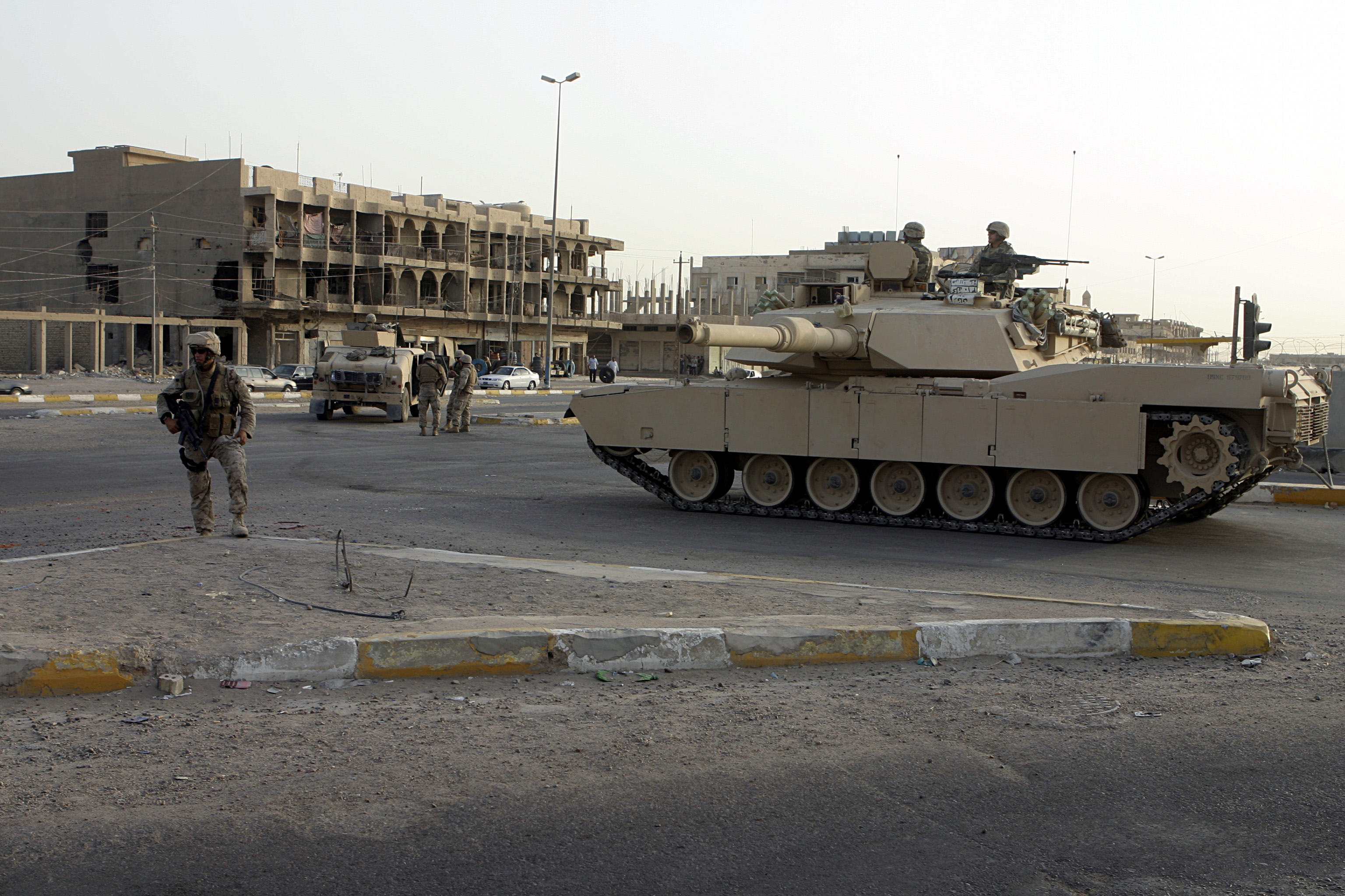 Tank M1 Abrams in Baghdad.